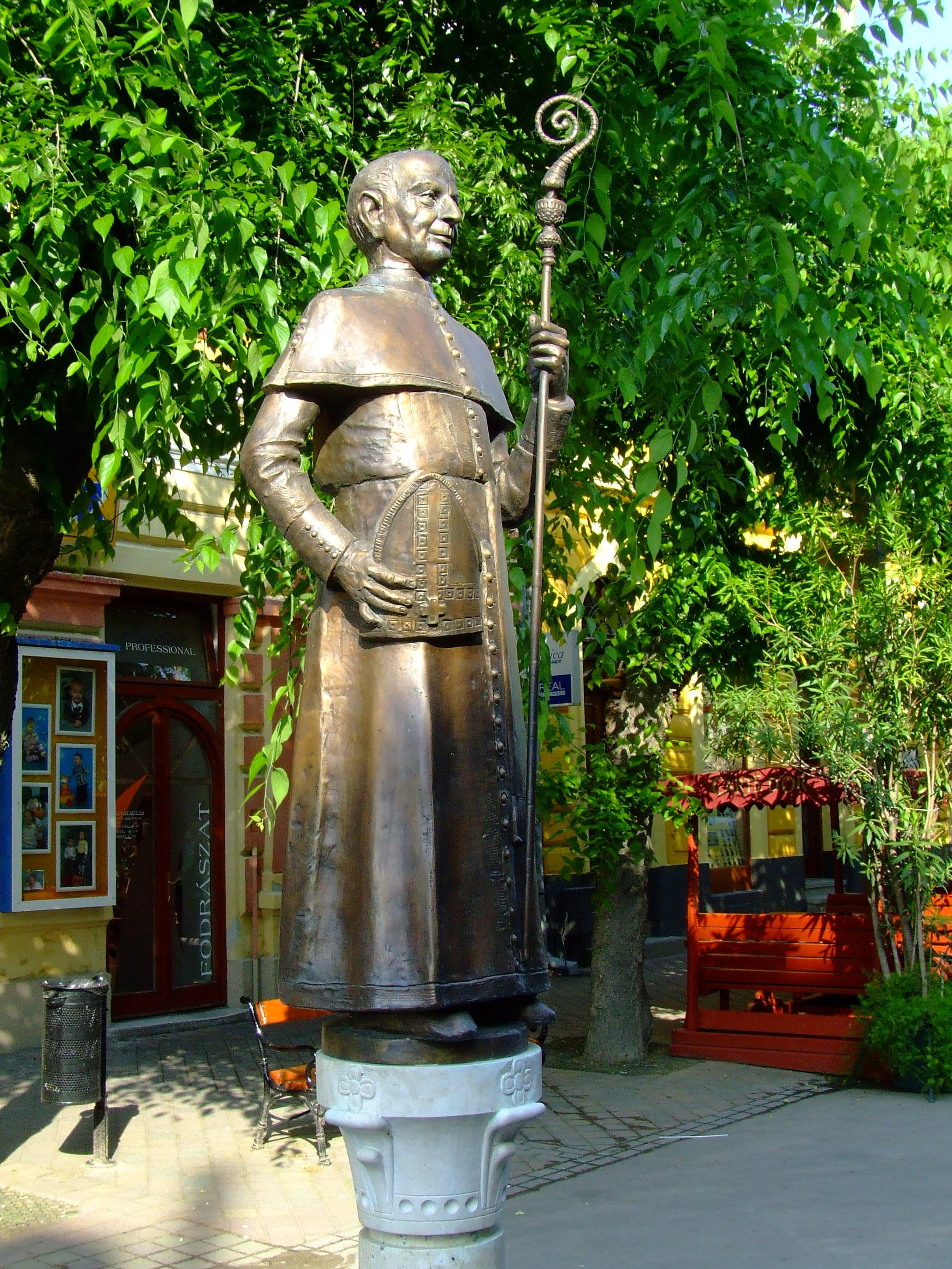 Joseph Grosz (1887-1961), Archbishop of Kalocsa, statue by KO Pál (2000)